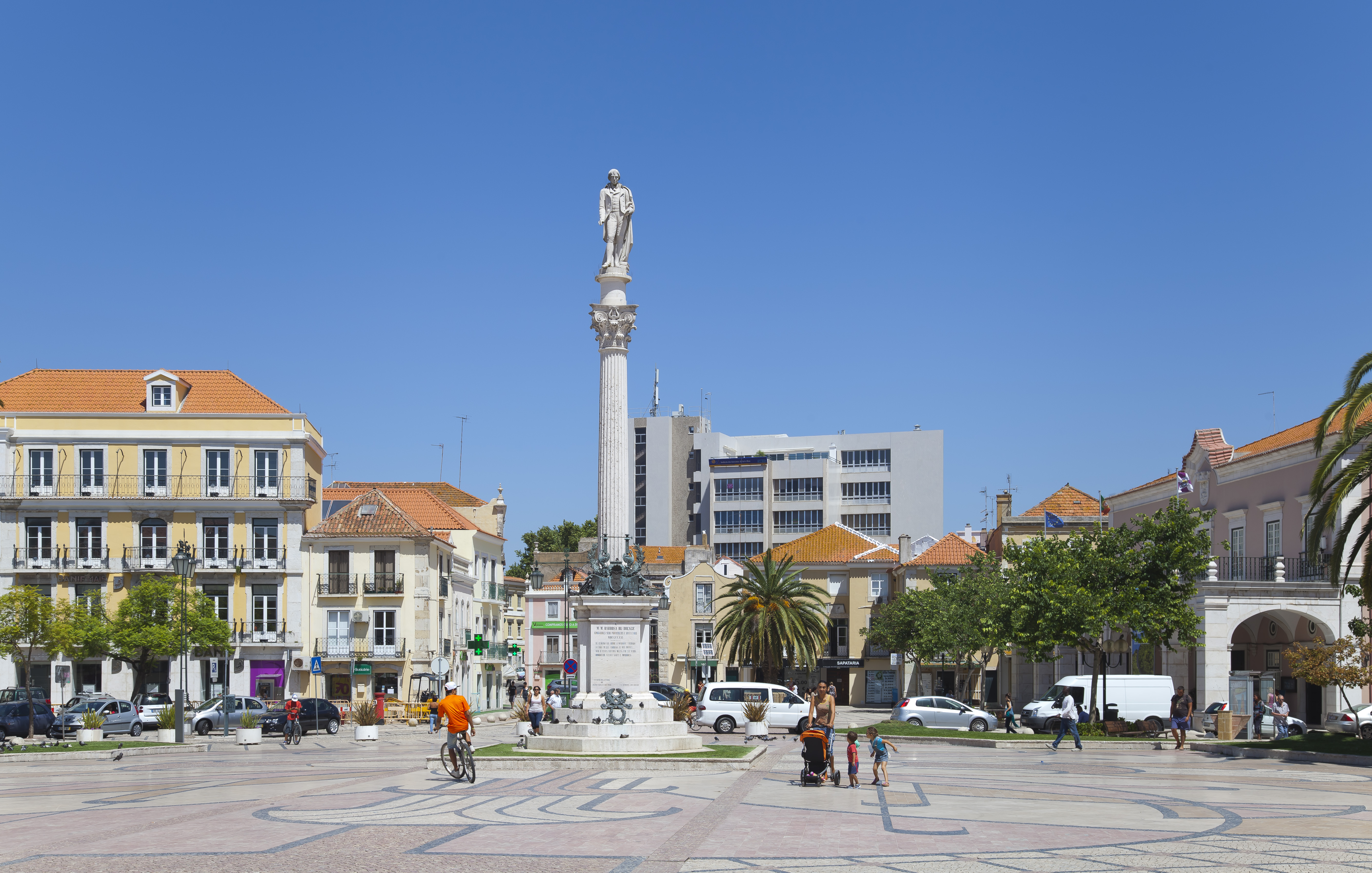 Town hall square, Setúbal, Portugal